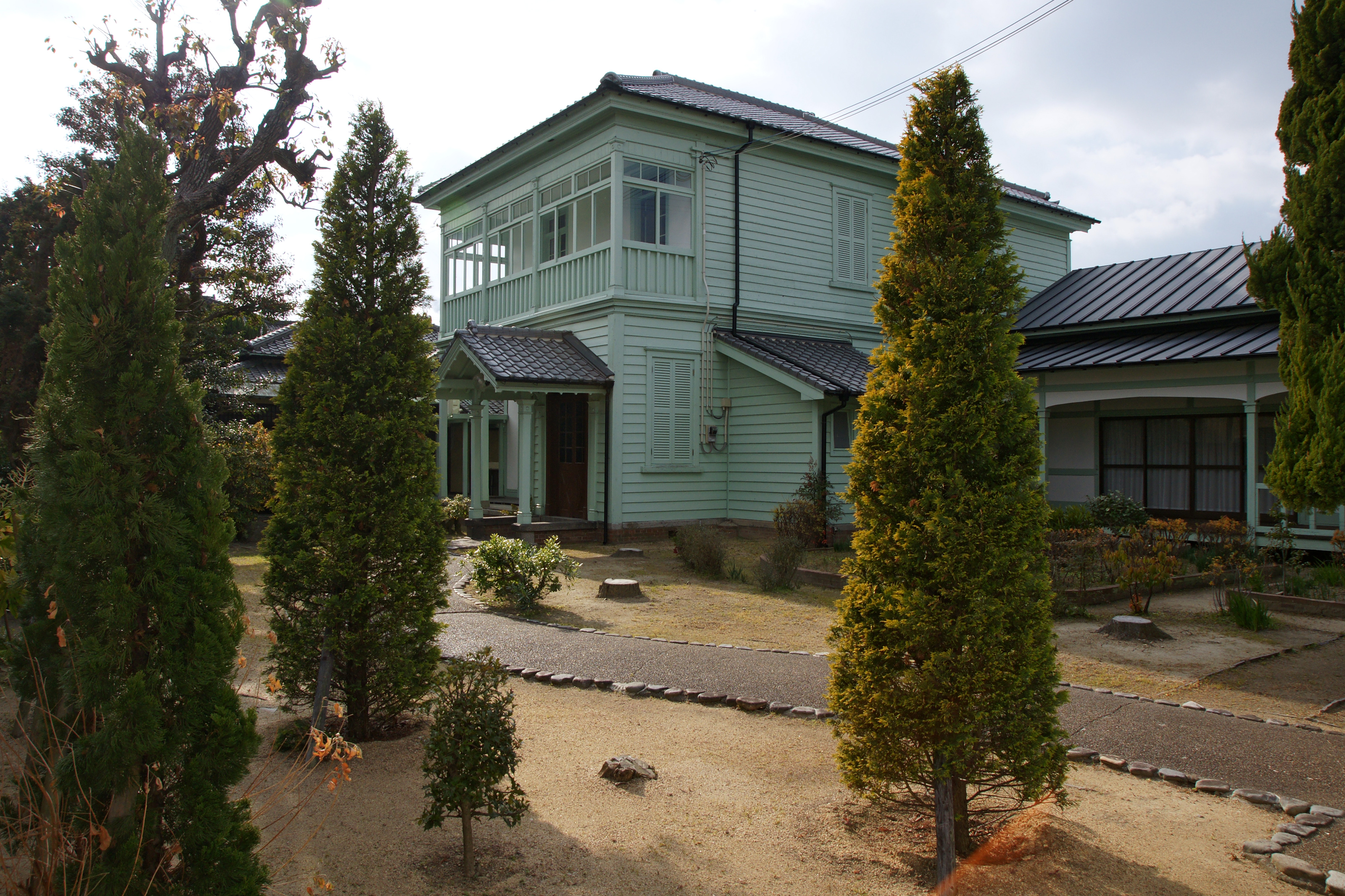 Mitsubishi-seishi Uomachi Club in Takasago, Hyogo prefecture, Japan